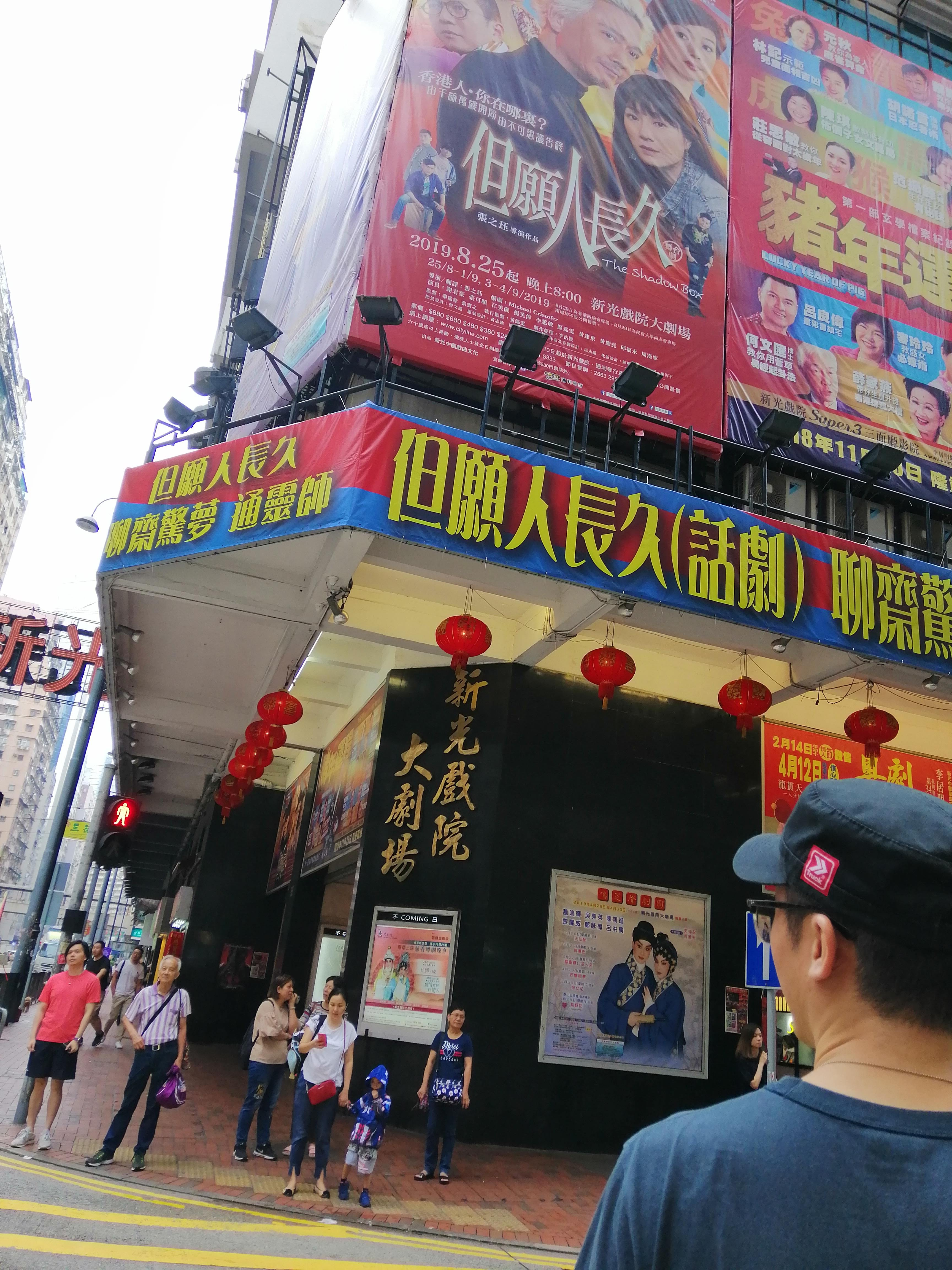 Scenery of Hong Kong Island